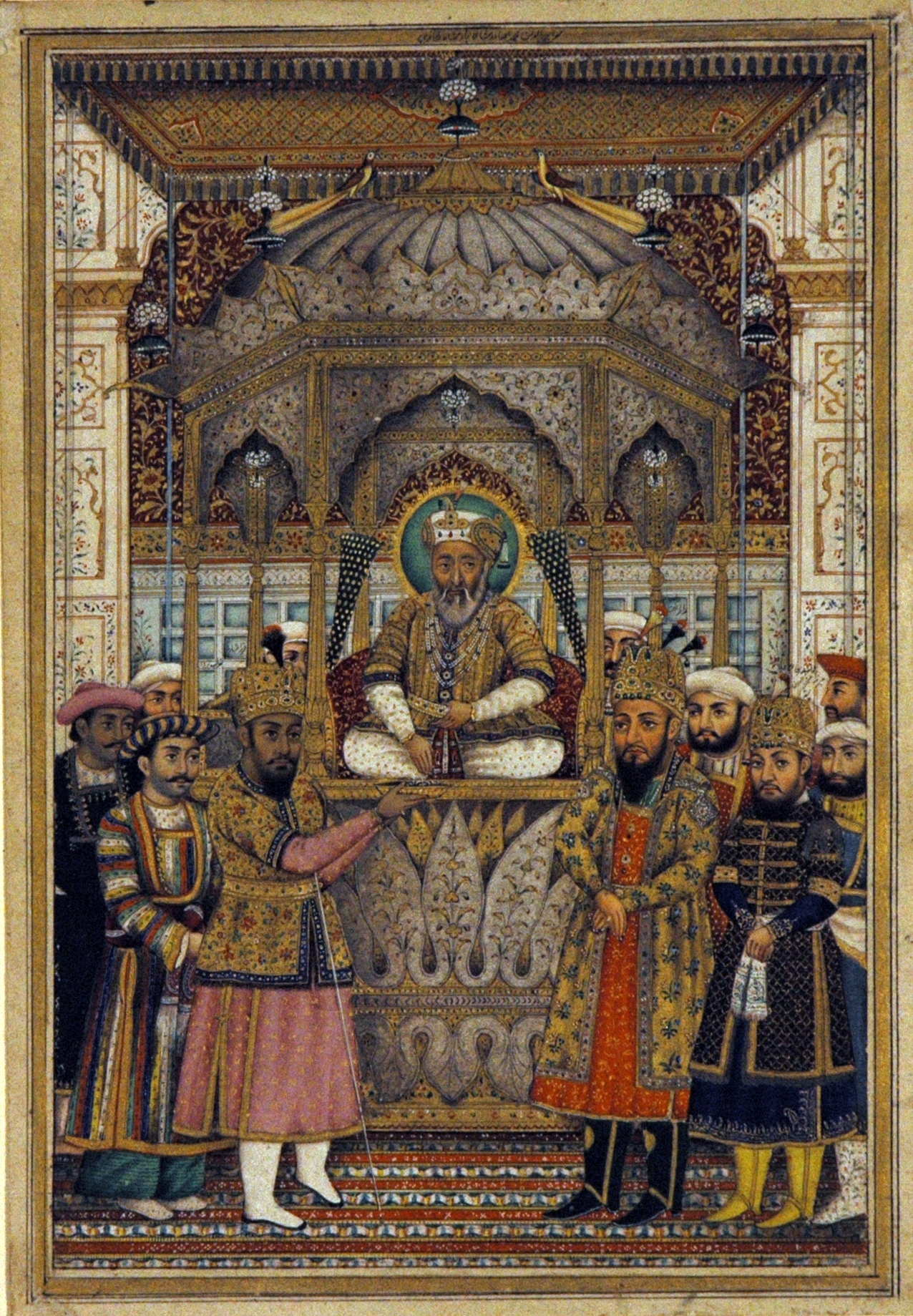 Bahadur Shah II in darbar, 1837, San Diego Museum of Art